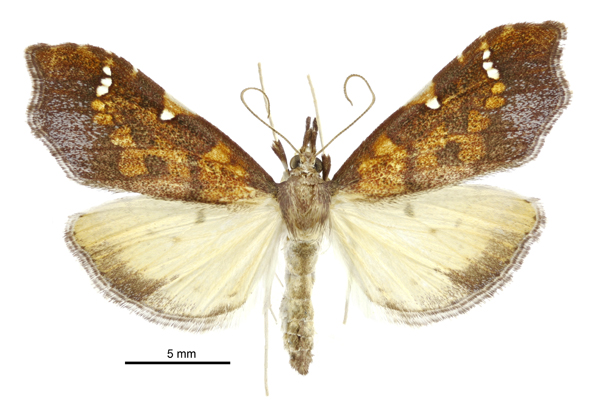 Female specimen of Deana hybreasalis photographed by Birgit E. Rhode, Landcare Research New Zealand Ltd.